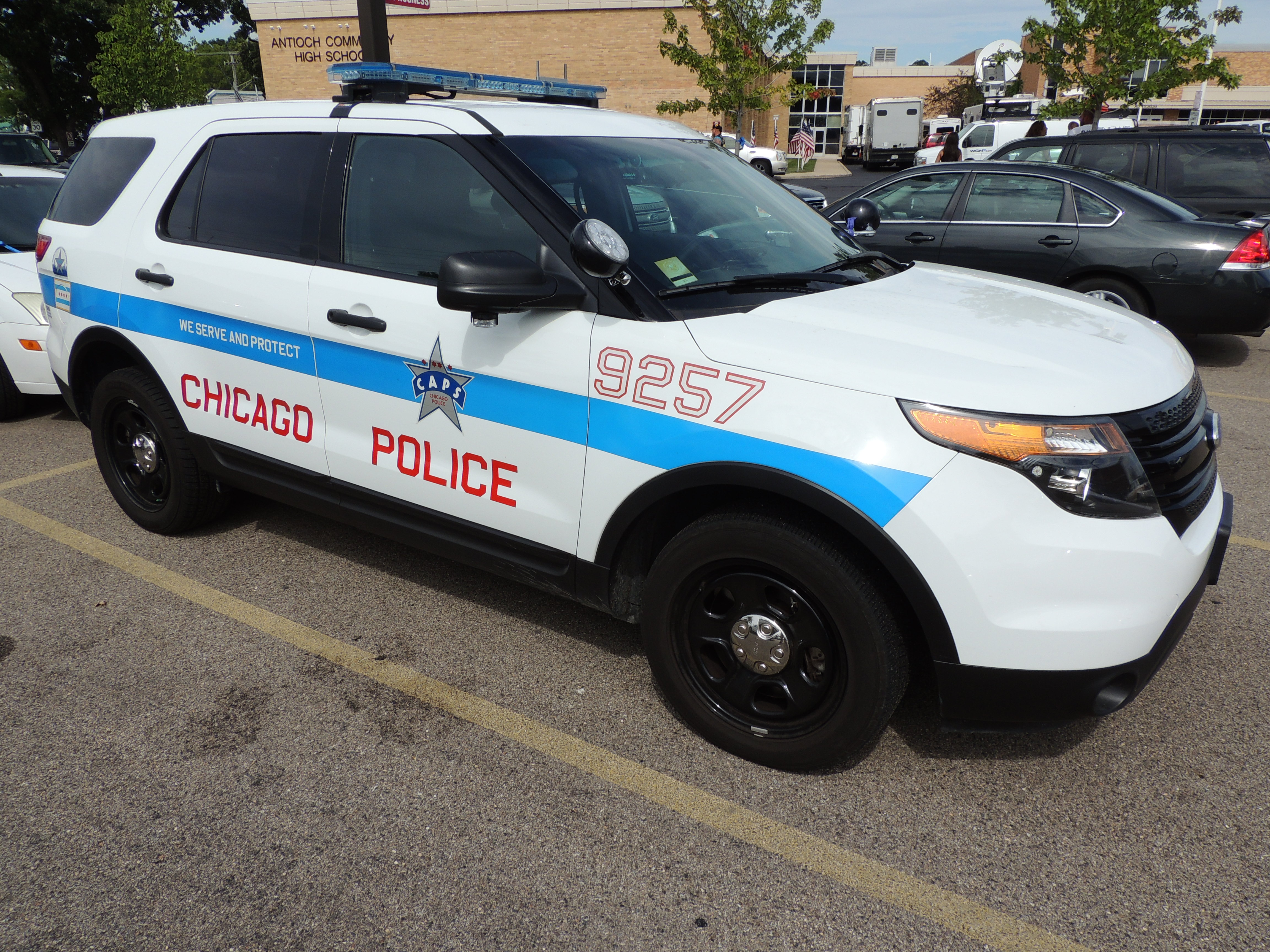 A picture taken by Asher Heimermann of a Chicago Police Ford Police Interceptor Utility in September 2015.